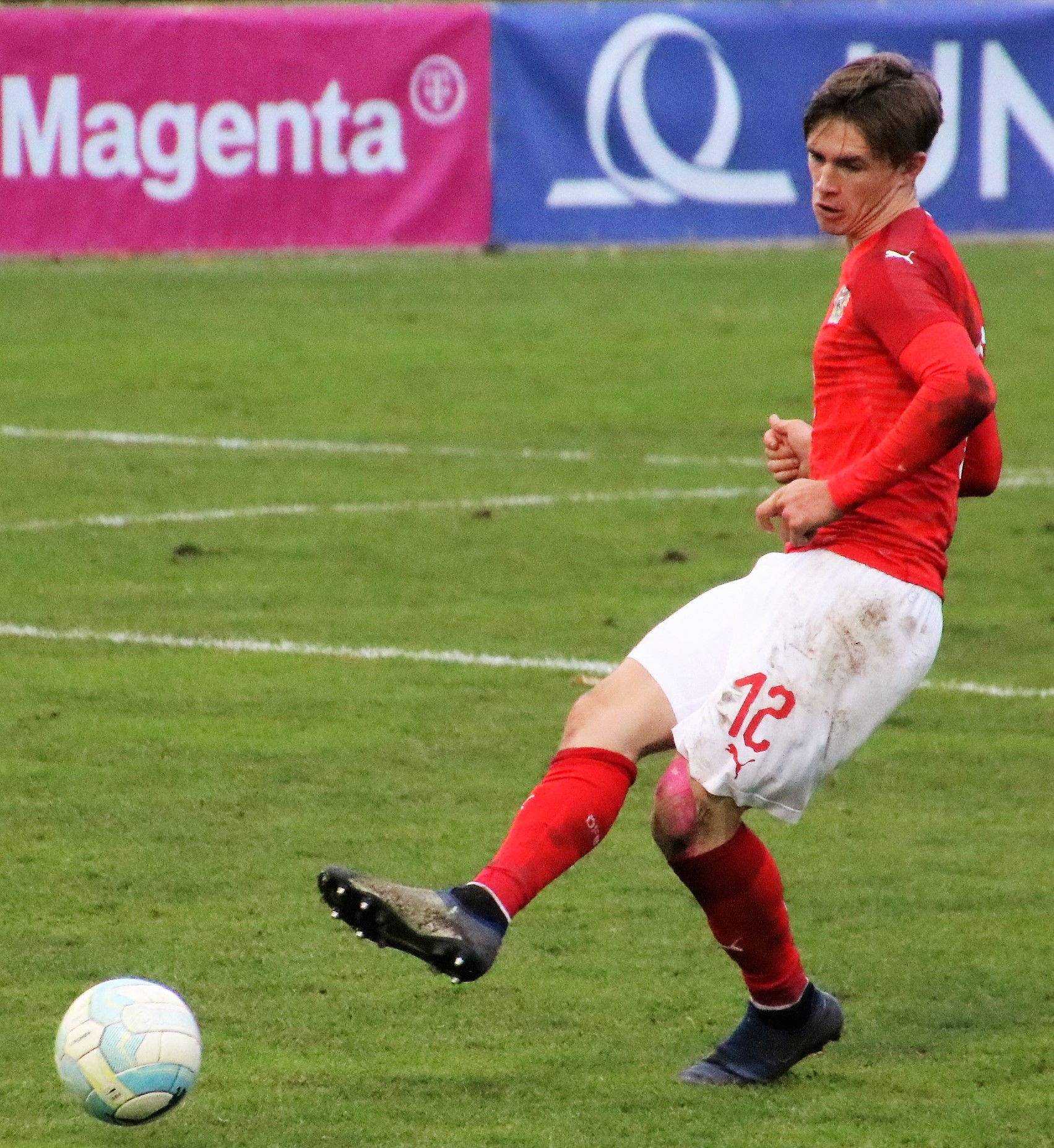 Euro Qualifying match